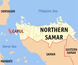 Map of Northern Samar showing the location of Capul